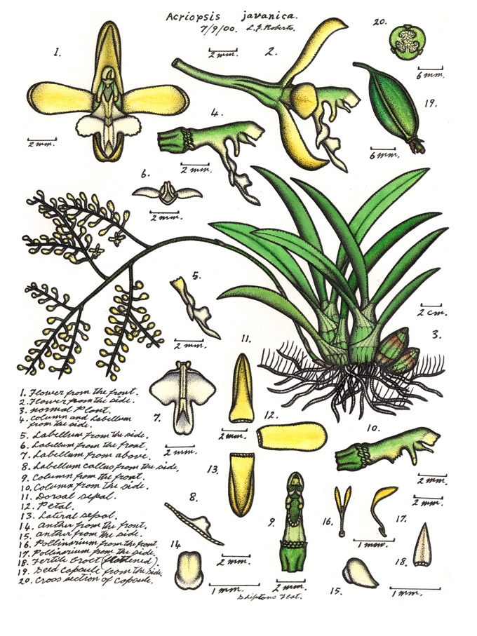 This is from a scan of the original botanical illustration